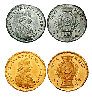 GERMANY, Archbishops of Mainz. Friedrich Karl Joseph von Erthal. 1774-1802. AV Half Ducat (1.74 gm). Abschlag of a billon Kreuzer in gold. Dated 1795. Joseph Aatz, mintmaster. Bust of bishop right / Coat-of-arms. KM Pn23 // Lot also includes a kreuzer of the same type in proper billon metal. KM 404. Both UNC, struck from rusty dies.